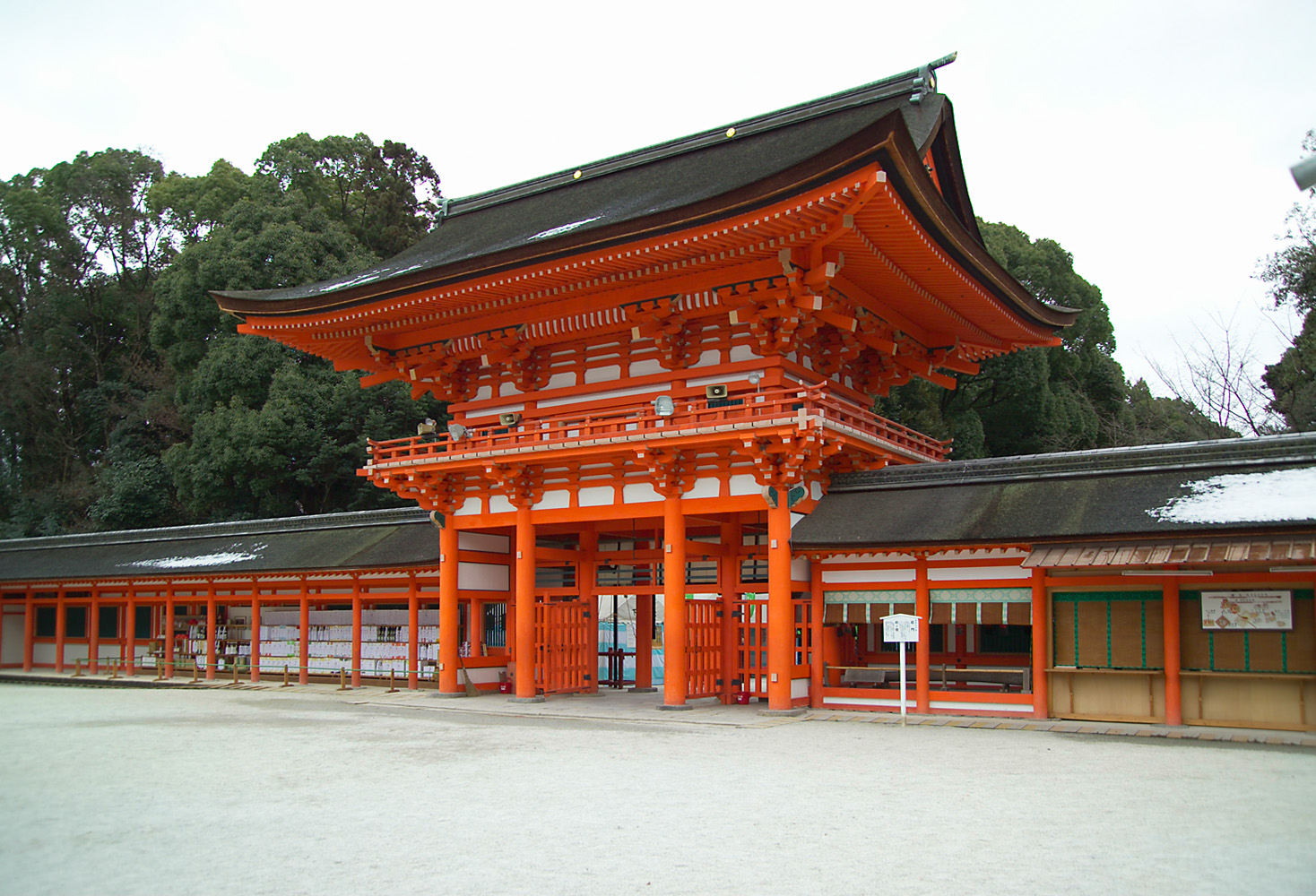 Gate at Shimogamo Shrine, Kyoto, Japan. I took this photo and contribute my rights in the file to the public domain; individuals and organizations retain rights to images in the file.